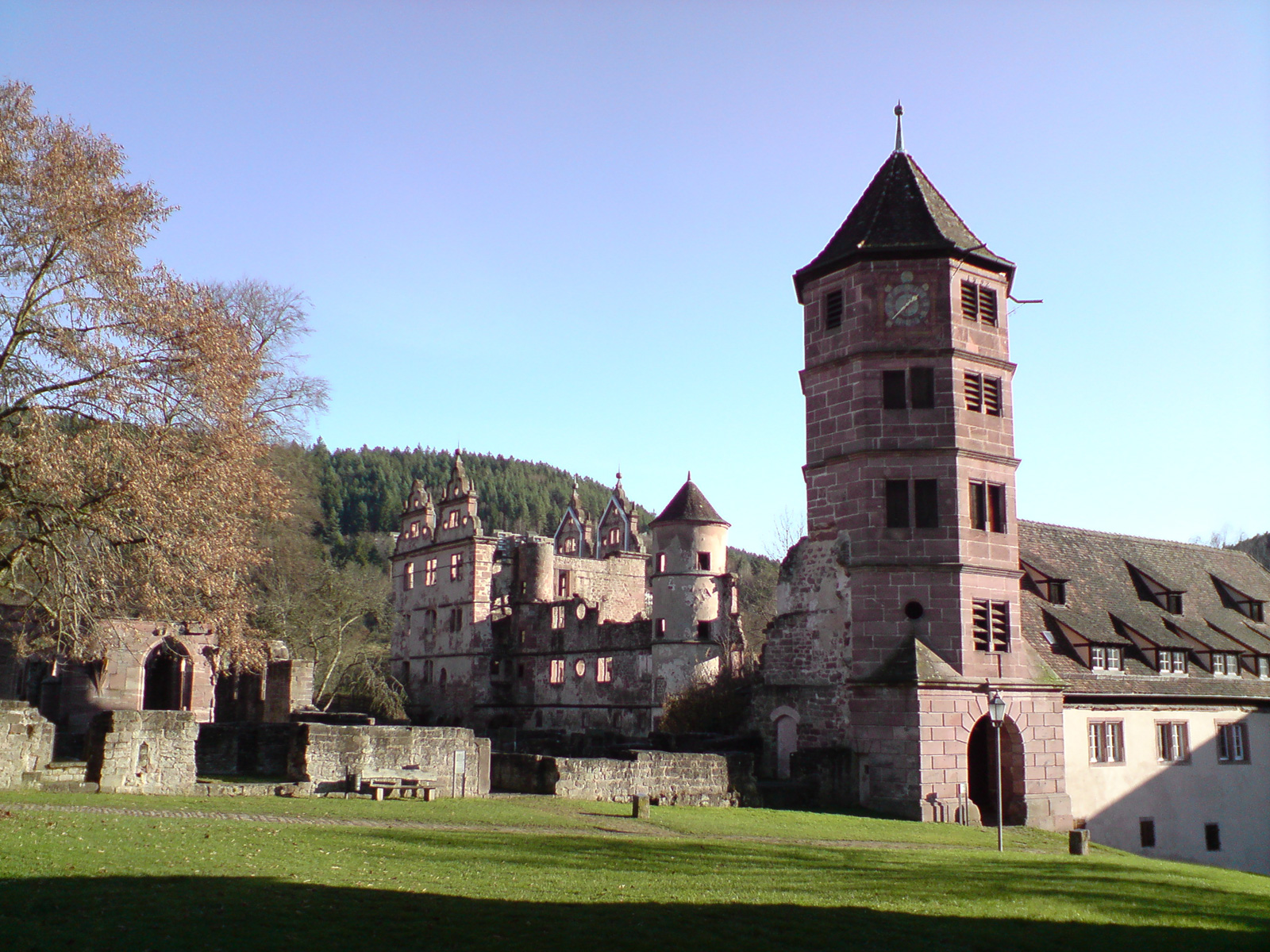 Hirsau Abbey - "Torturm" and "Jagdschloss"